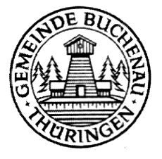 The seal of Buchenau village.